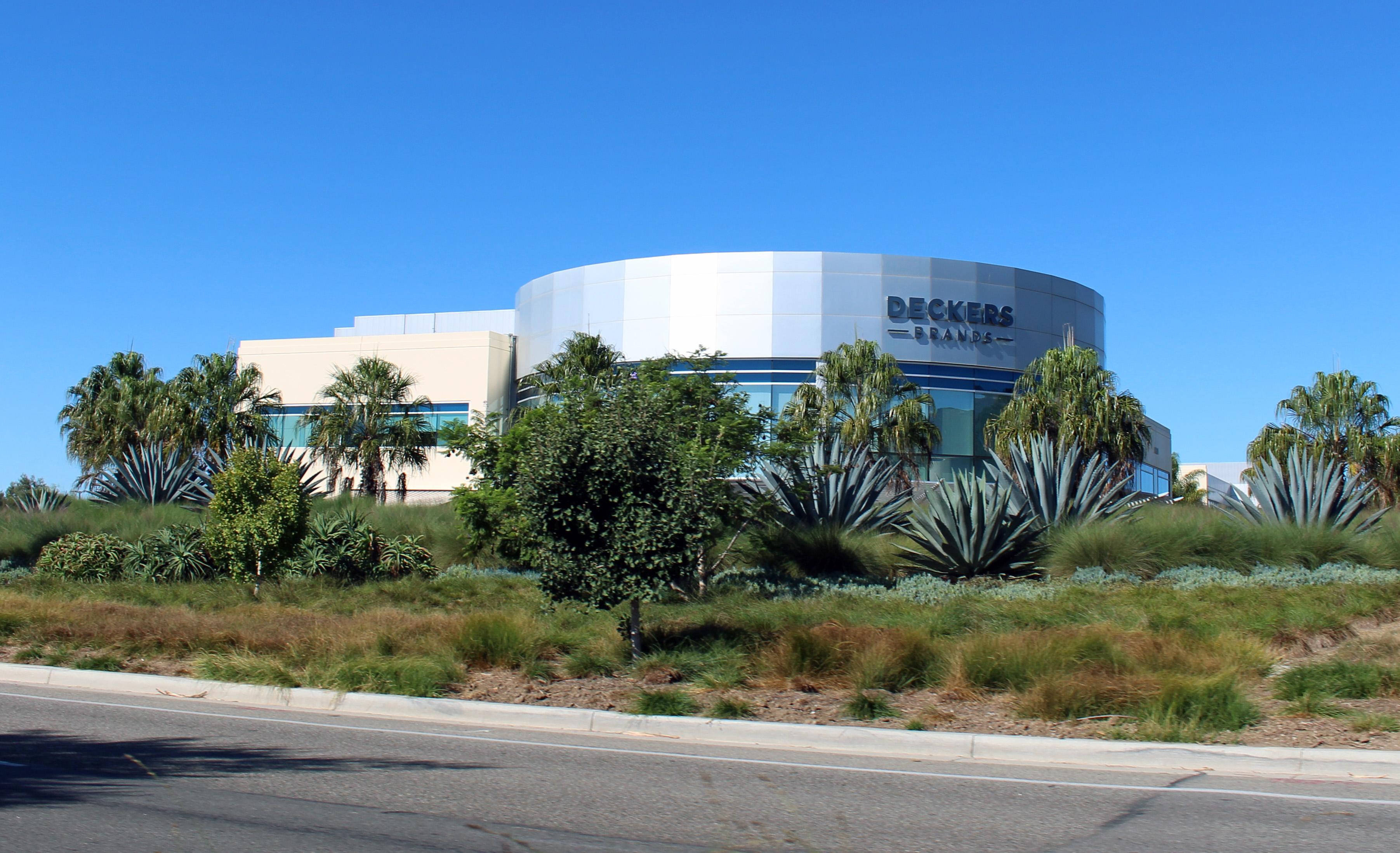 Building 1 at Deckers Outdoor Corporation headquarters in Goleta, California. Photographed on September 8, 2019 by user Coolcaesar.